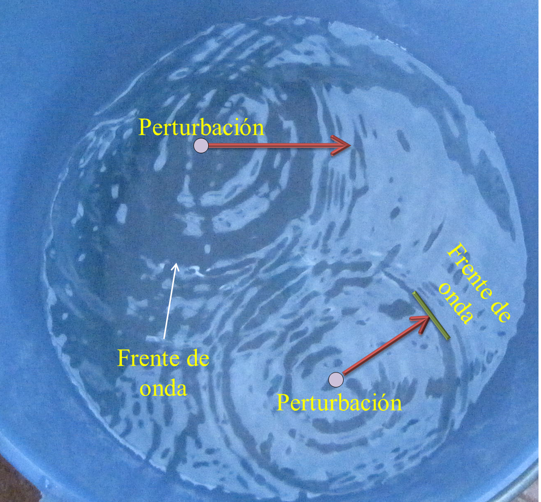 Wave perturbation in water.